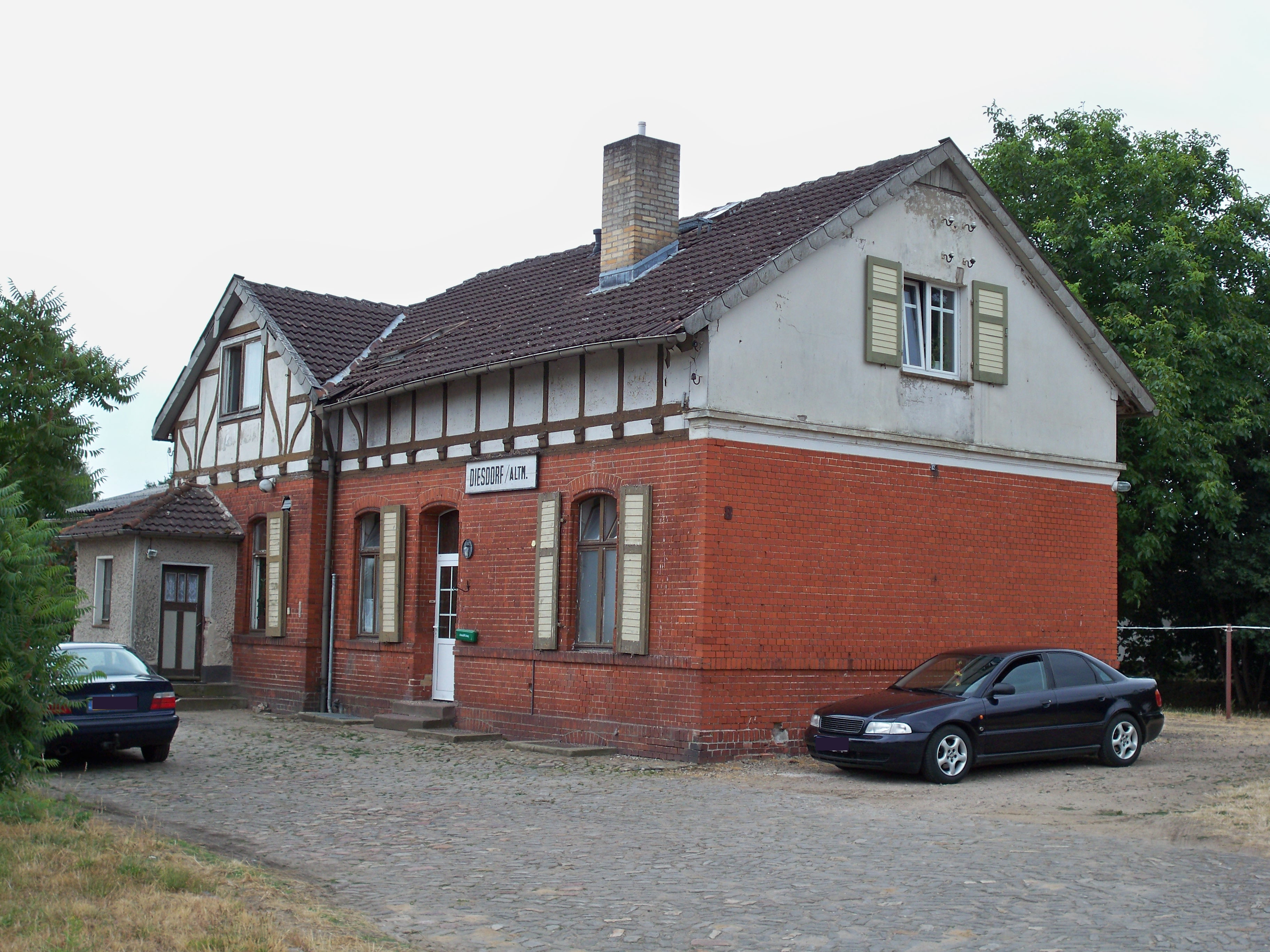 Former railway station Diesdorf